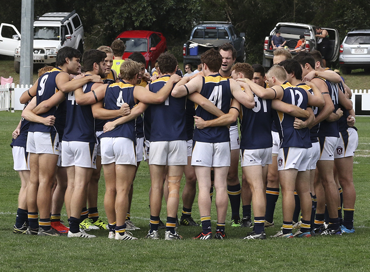 The Bond University Bullsharks huddle.